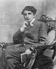 Amin al-Rihani, Photograph, al-Funun 1, no. 7 (October 1913) Amin al-Rihani was born in the village of al-Furaykah, Lebanon in 1876. He lived there 12 years before he emigrated with his uncle to New York City to join his father who had opened up a shop that served the flourishing peddling trade in which the majority of Lebanese-Syrian immigrants engaged. Amin’s early years in New York were governed by his work as a clerk in his father’s shop. However, this occupation did not suit the young Amin and he ran away at 18 to join a traveling theatrical troupe. This troupe folded a short time later and Amin was forced to return home. During his early years, in addition to his helping his father and his theatrical interests, Amin studied law briefly—all the while working to improve his English as many of the younger generation of emigrants did in order to fit into American society.1 When he achieved a mastery of the English language, he began publishing a number of works in English. His monograph “The Book of Khalid,” published in 1911, is an example of his English material. Al-Funun provided Amin, as it did Gibran and the other Arab-American writers of his day, the ability to publish their literary and artistic material in a journal devoted to the Arts. Previously, each writer could only publish bits and pieces of their work, which had to appear along with material that had no relationship to it. For further information about Amin al-Rihani, visit the site devoted to him at